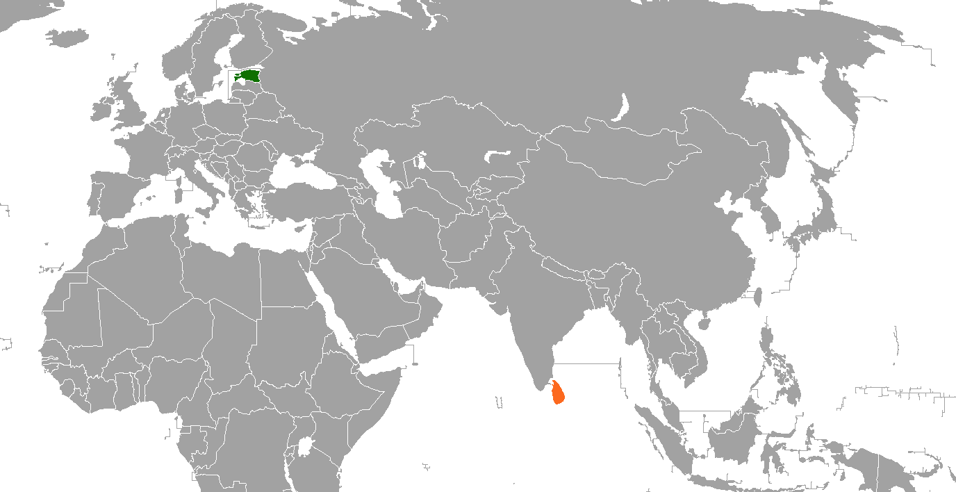 A map showing the locations of Estonia and Sri Lanka, created by me using existing public domain map (Armenia USA Locator.png) as a template.